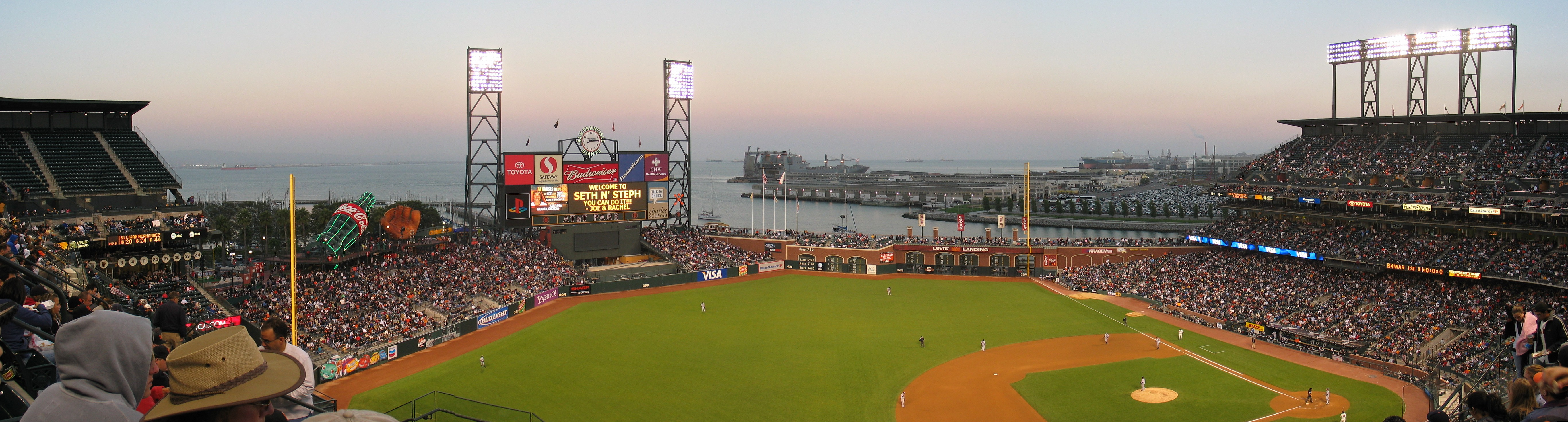 AT&T Park, Baseball Stadium, San Francisco, USA